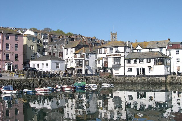 Custom House Quay, Falmouth. This was the destination of the Falmouth Mail Packet Ships, by the 1800s a fleet of around 40 ships were sailing from here, taking mail to places all over the world.